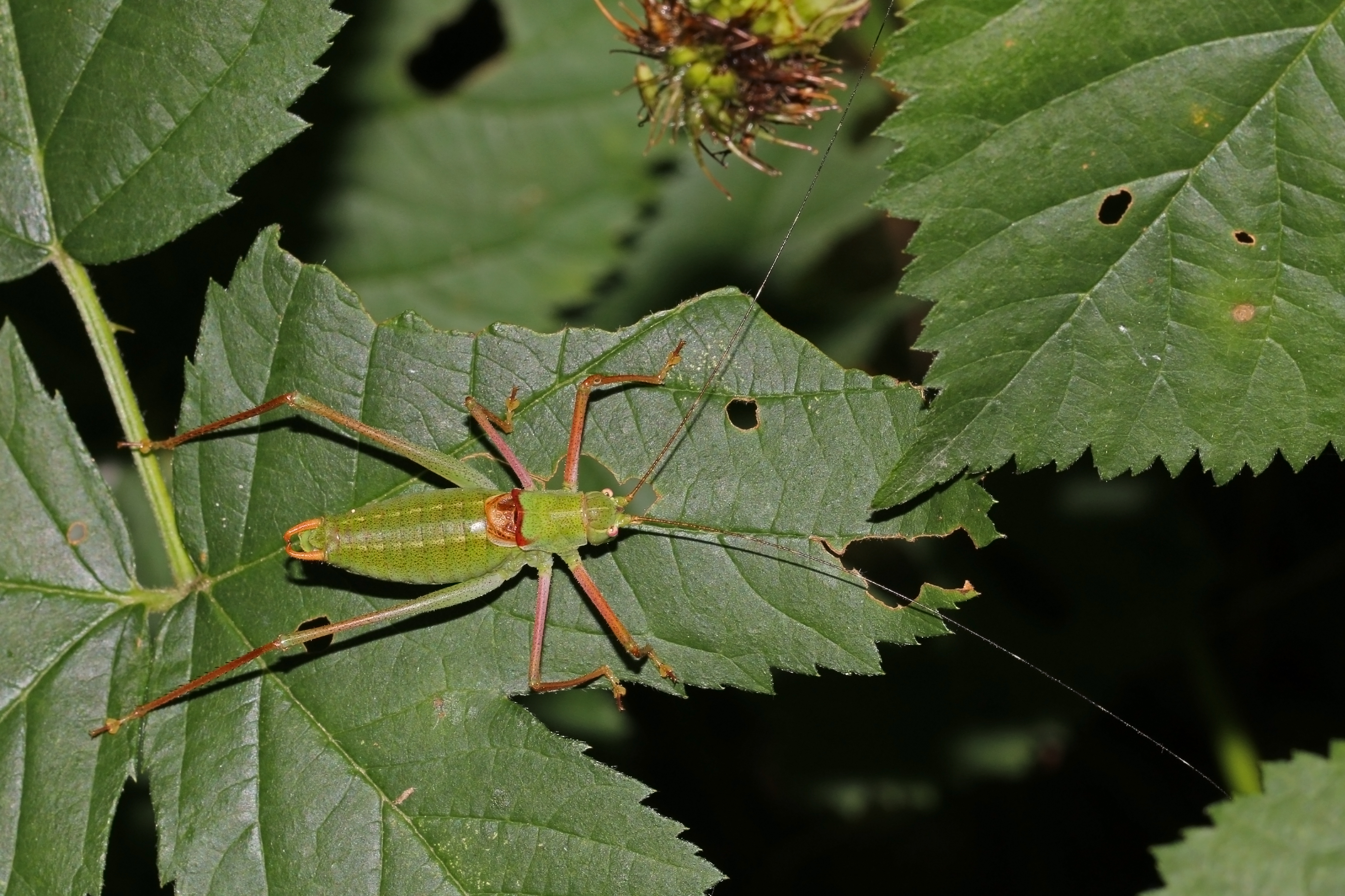 Schmidt's bright bush cricket (Poecilimon schmidti) male, Sofia Airport, Bulgaria